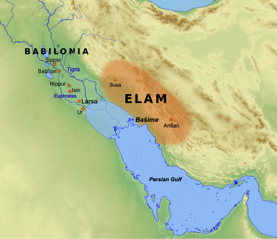 Map of Babylonia and Elam in the 20th century BC